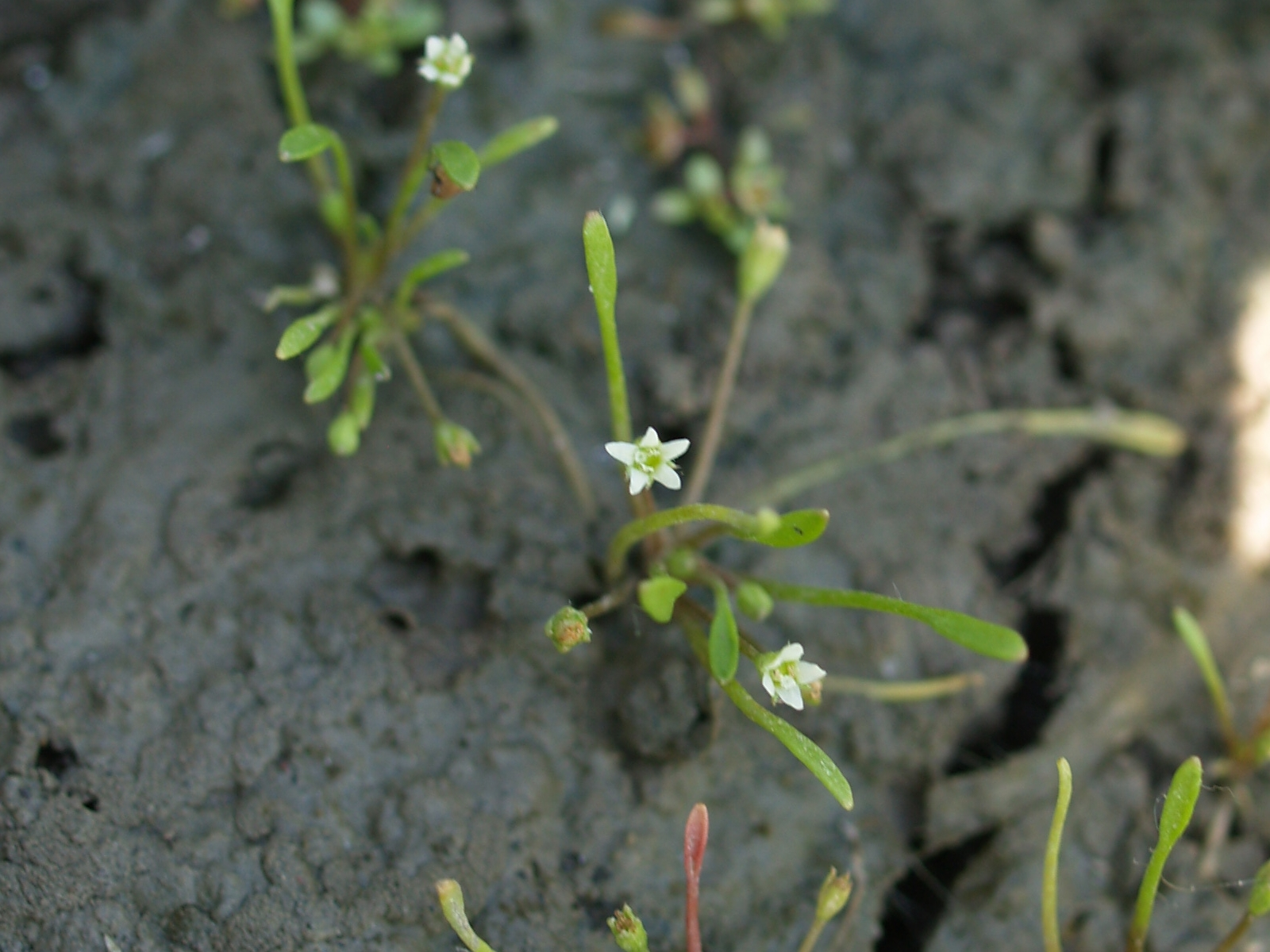 Yu Ito (2012) Aquatic plant surveys in the eastern and central parts of North America. Bulletin of Water Plant Society, Japan 98: 51-56.